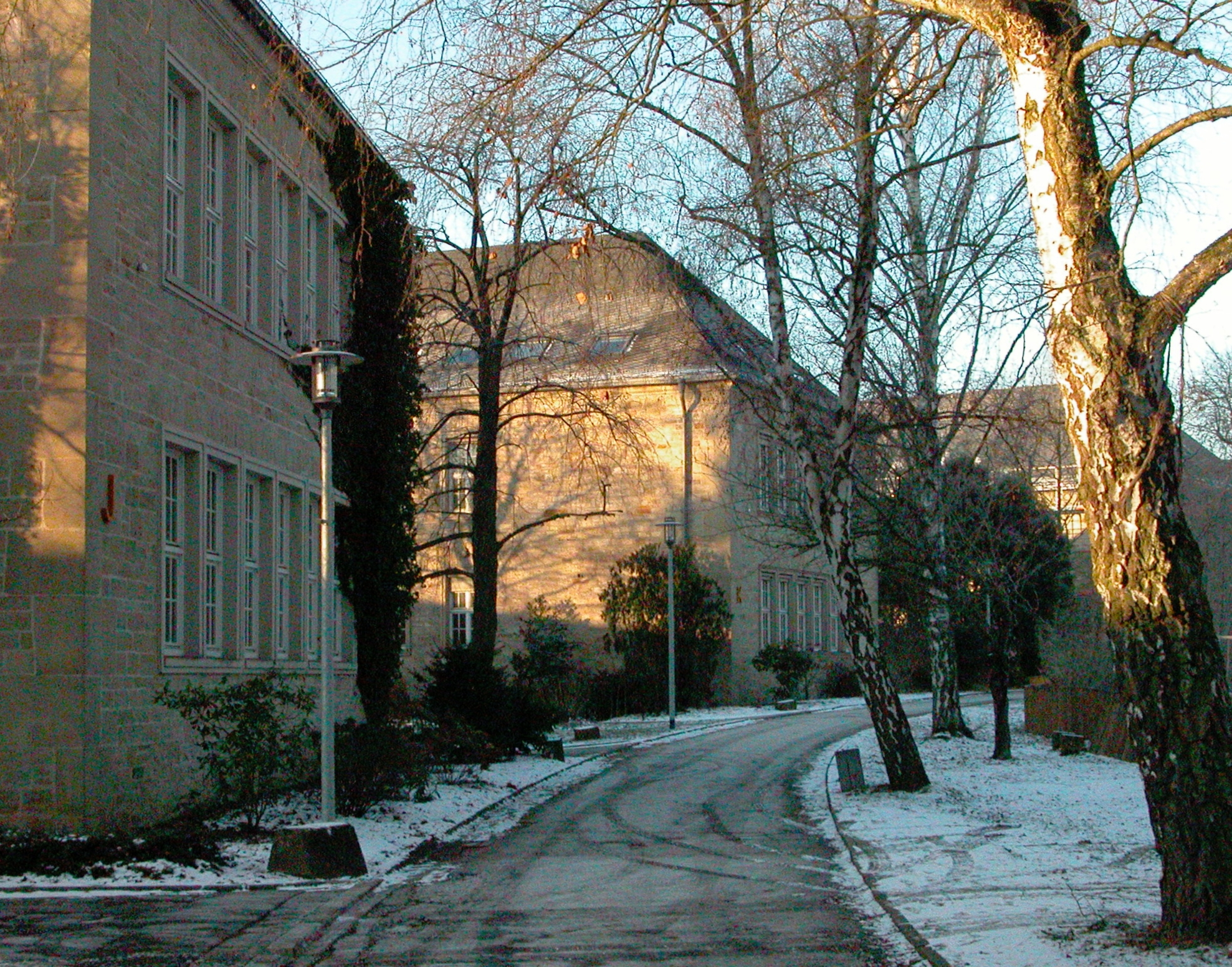 University of applied sciences Trier, historical buildings